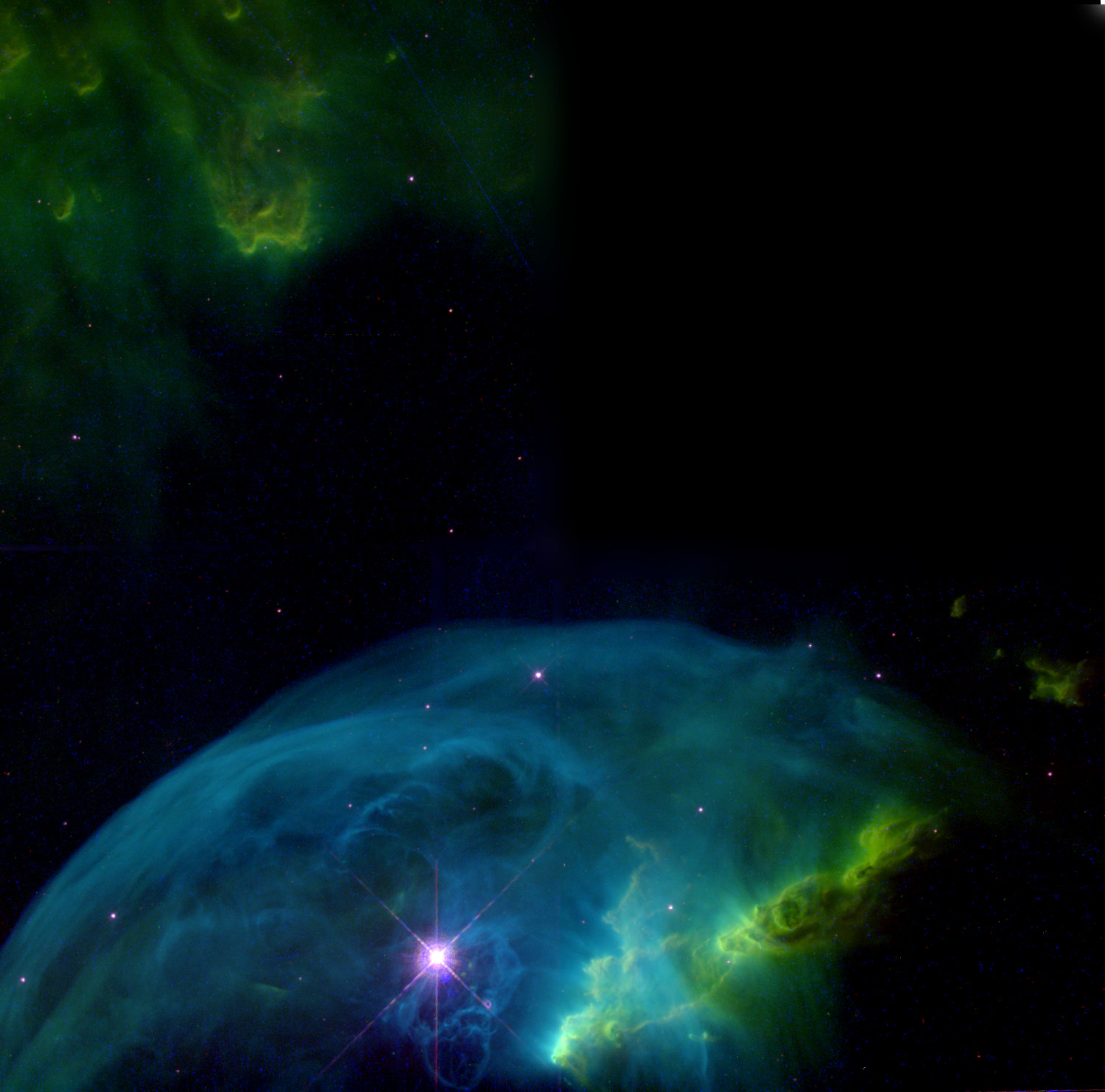 NGC 7635 or the Bubble Nebula